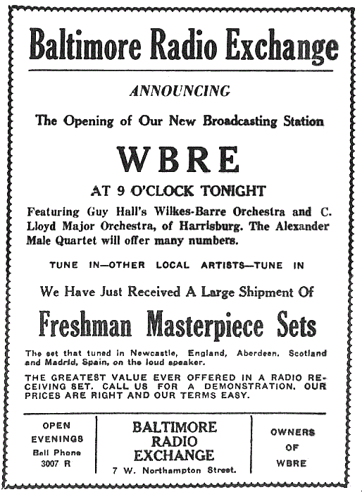 On January 31, 1925 the Baltimore Radio Exchange of Wilkes-Barre, Pennsylvania began regular operation of its new radio station, WBRE